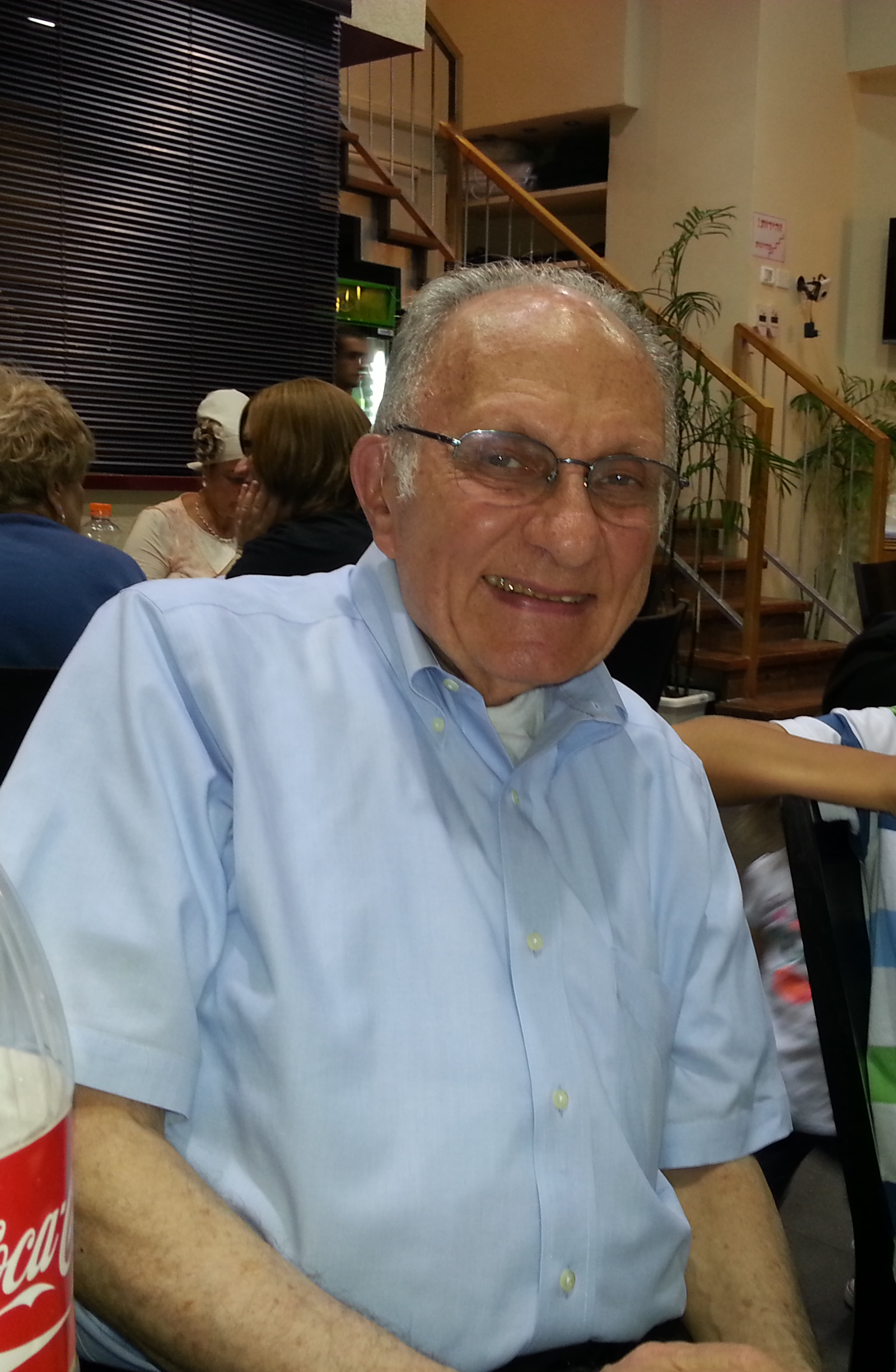 Lee Spetner at a Jerusalem restaurant in August 2013